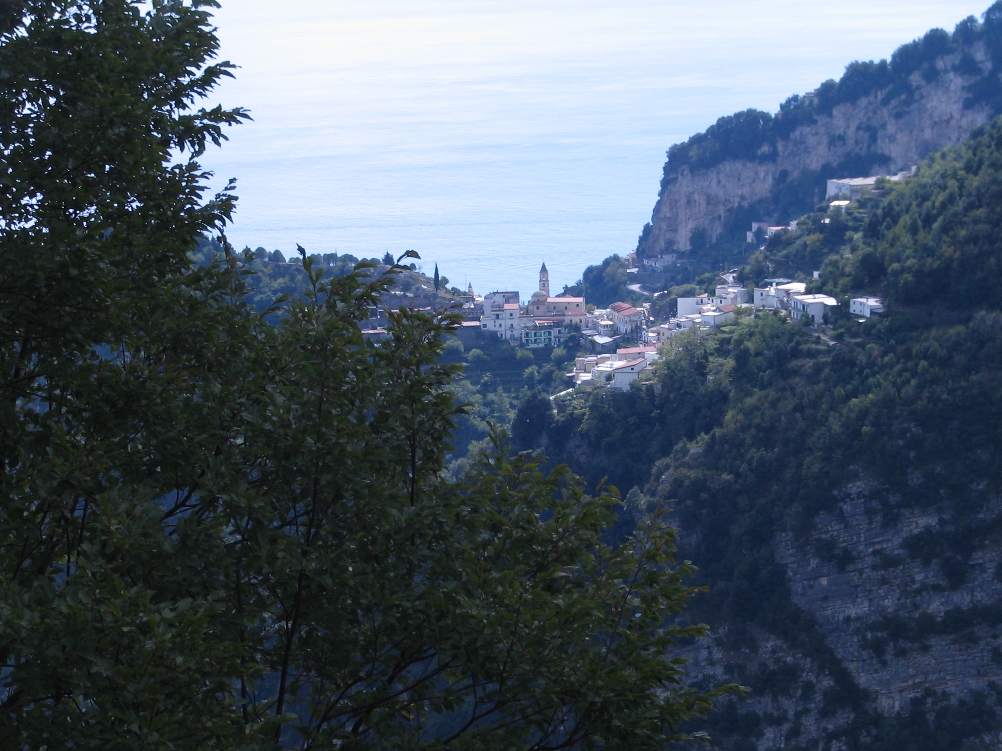 Pogerola, Amalfi, Italy